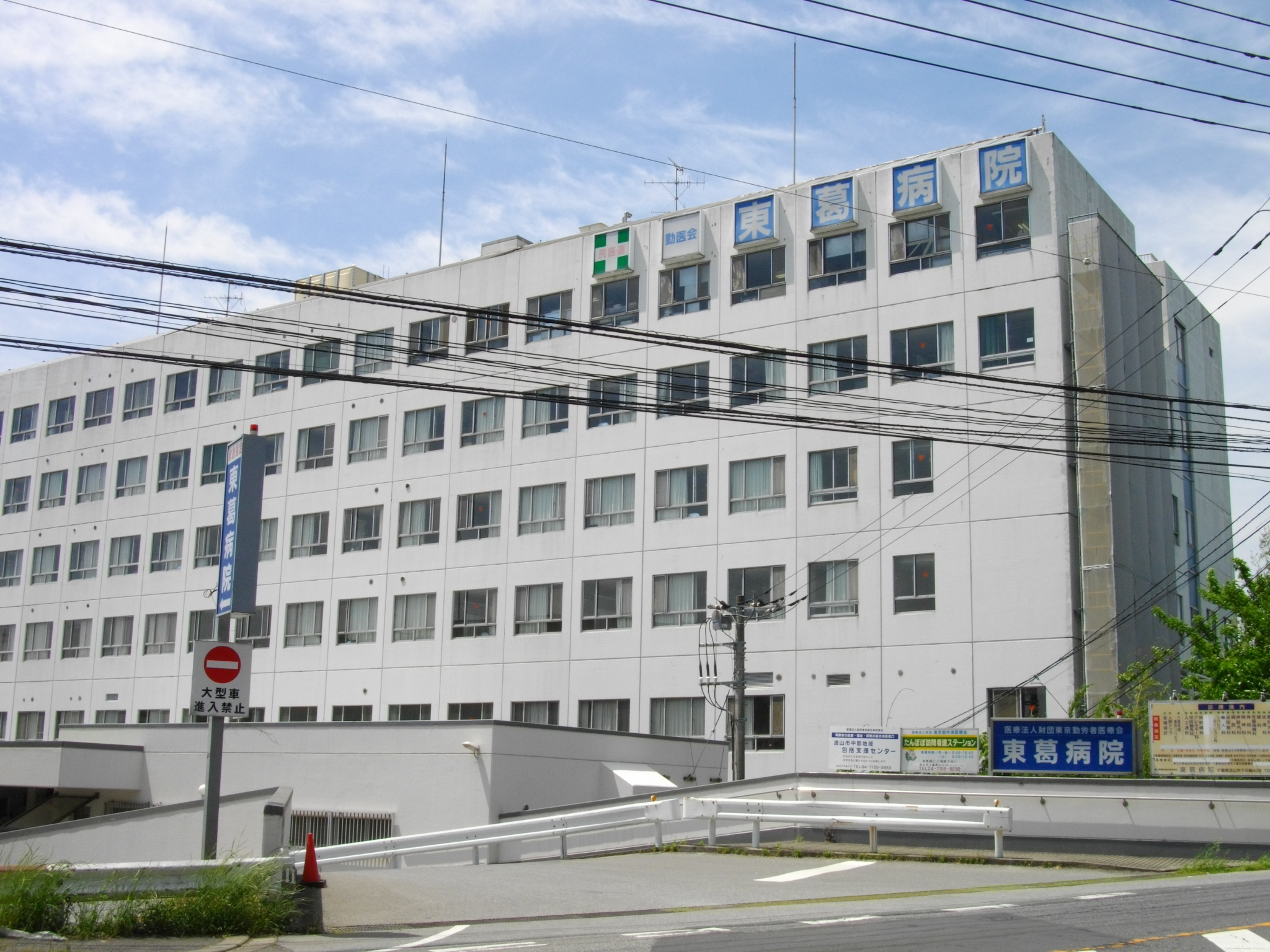 Toukatsu Hospital